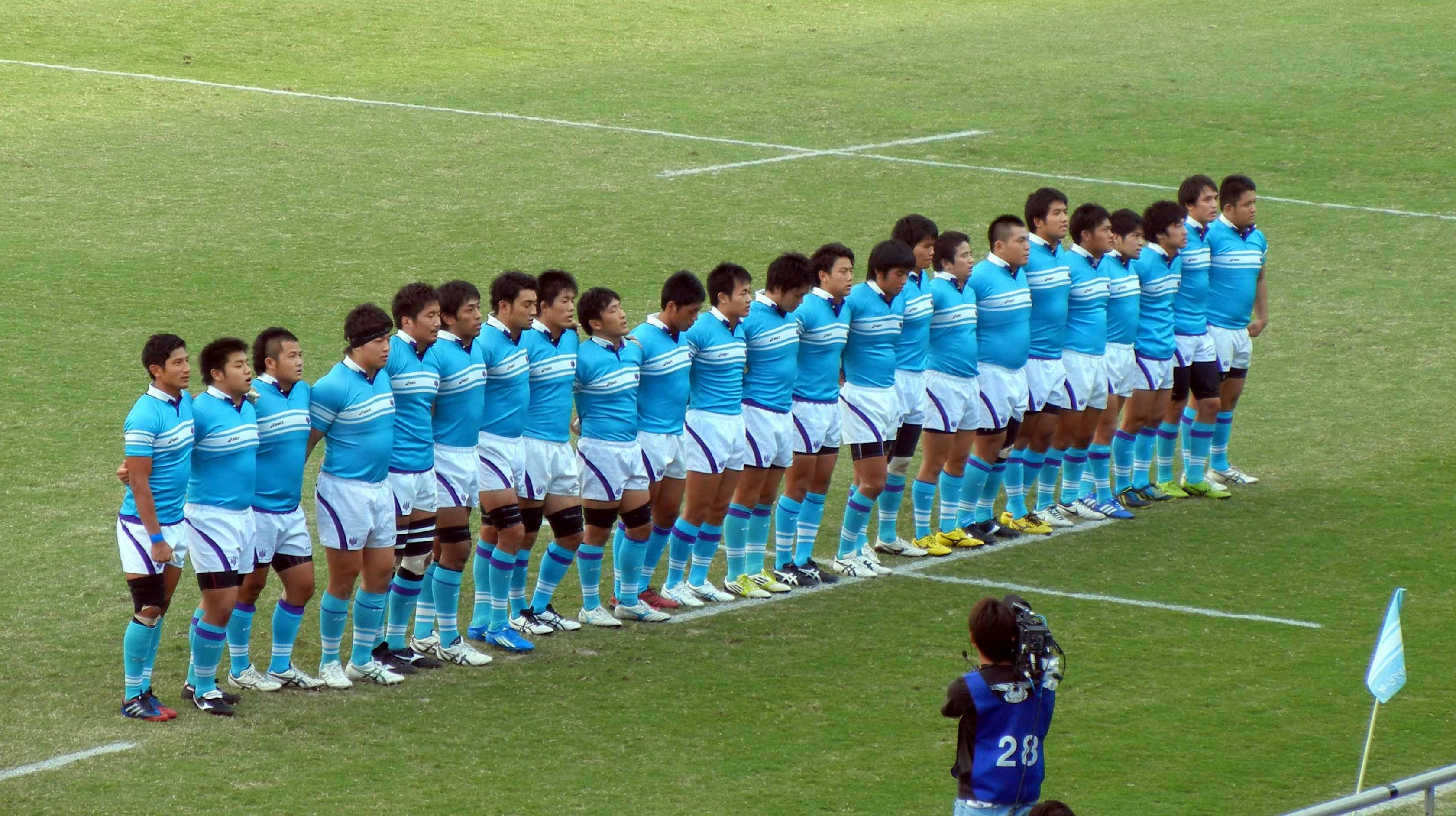 University Of Tsukuba Rugby Football Team Players